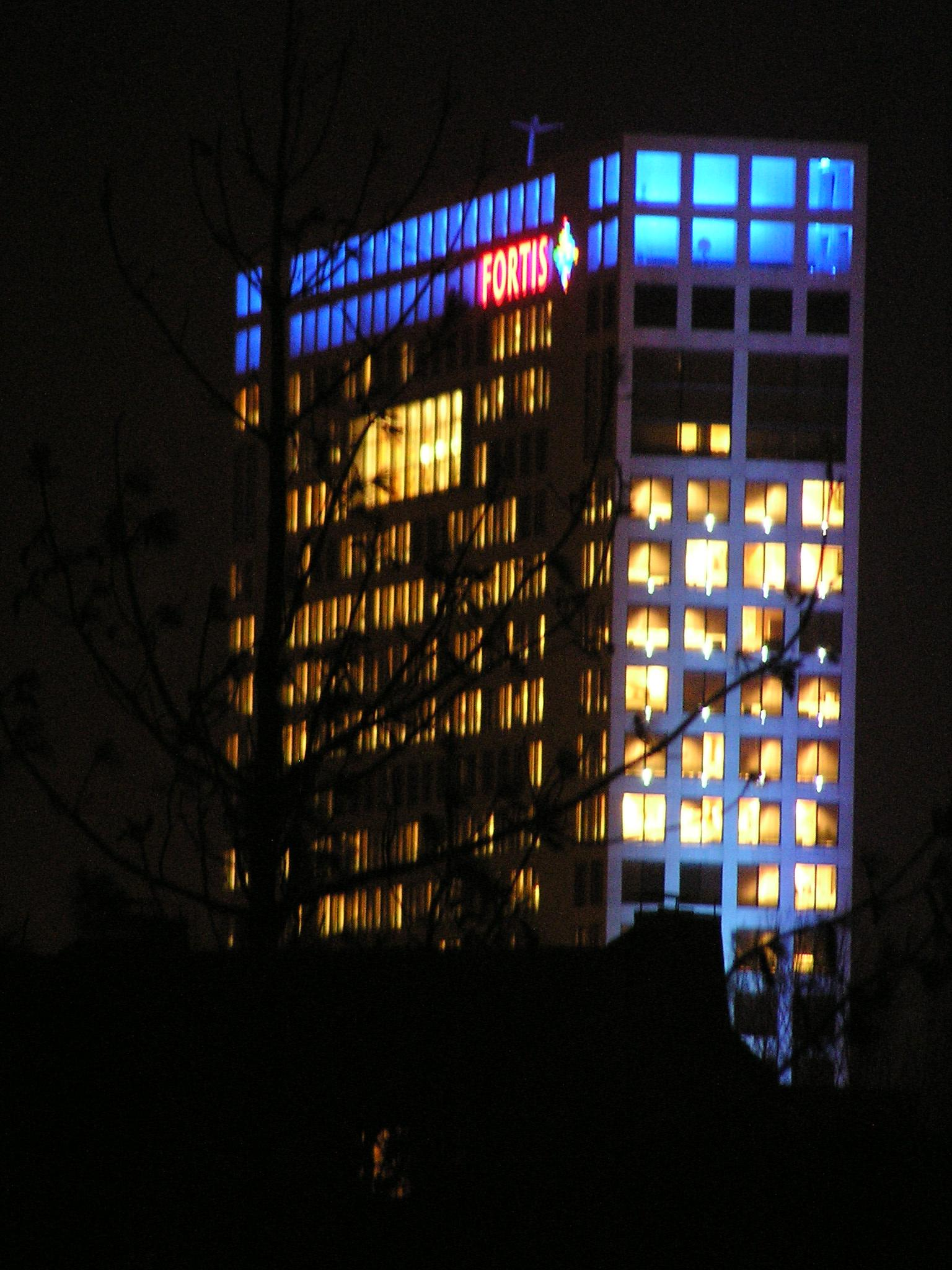 Picture of Dutch Fortis Bank